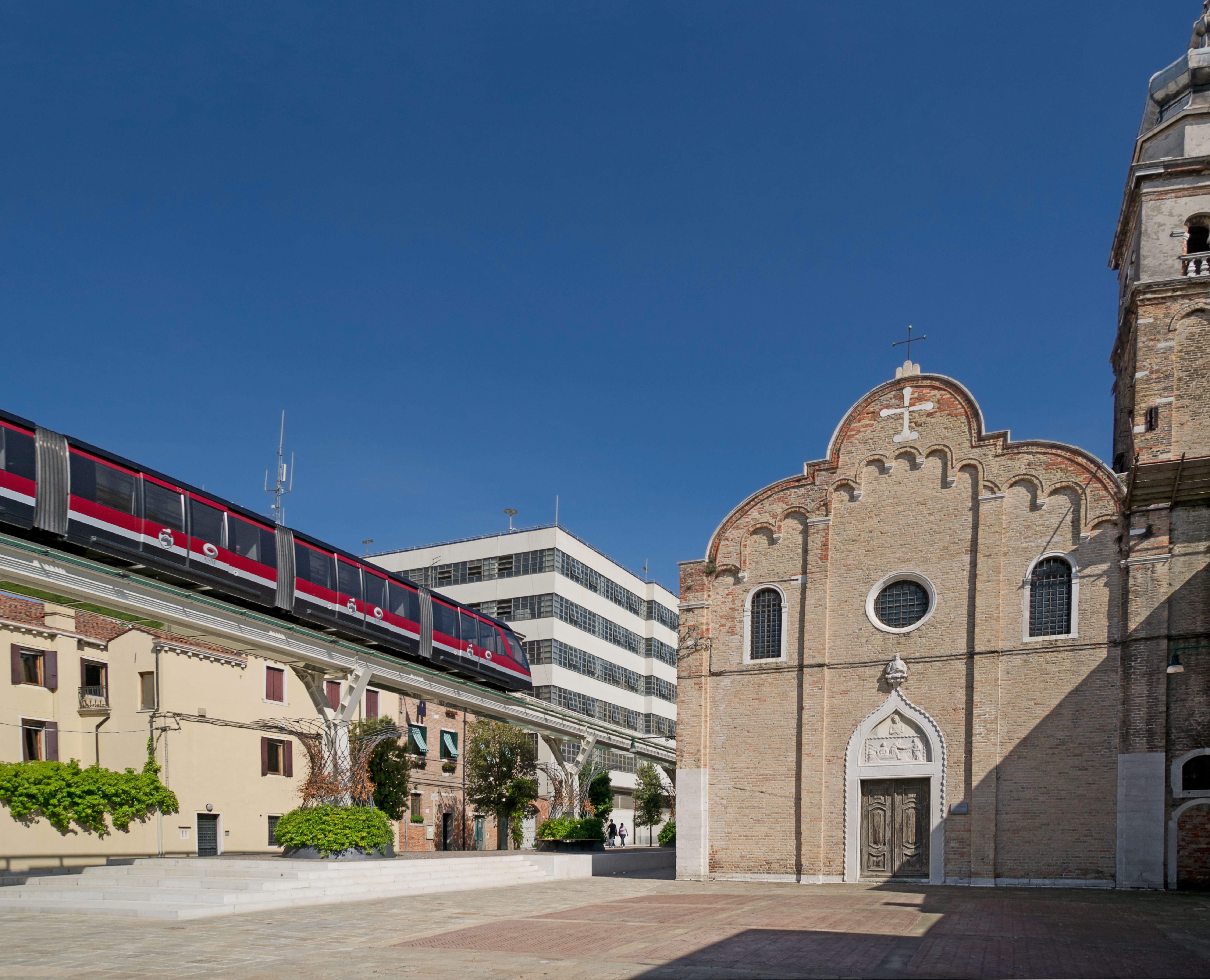 Sant'Andrea della Zirada and People mover Venice.